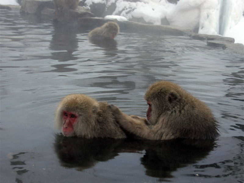 Japanese Macaques (Macaca fuscata). Jigokudani HotSpring in Nagano Prefecture,Japan. It is famous that monkeys take a bath.